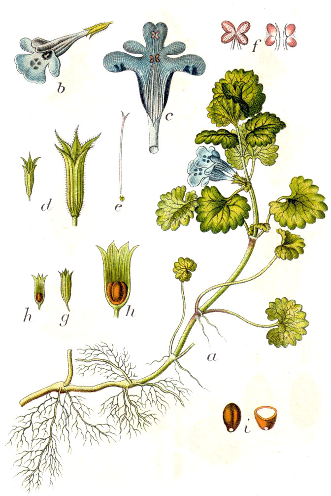 Glechoma hederacea L., syn. Nepeta hederacea (L.) Trevis. Original Caption Echte Gundelrebe, Nepeta hederacea